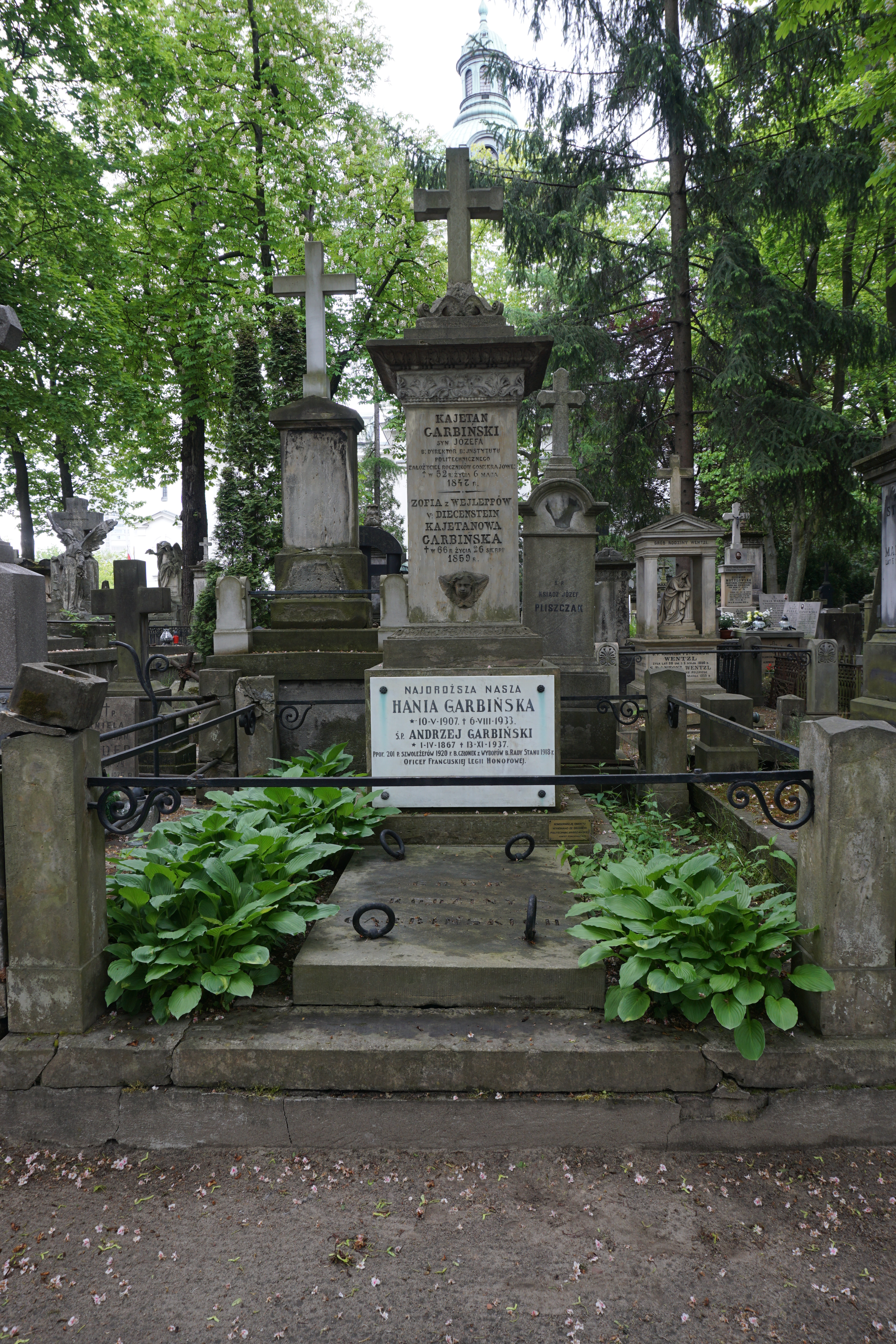 The grave of Kajetan Garbiński at the Powązki Cemetery (section 13, row 6, grave 9, 10)